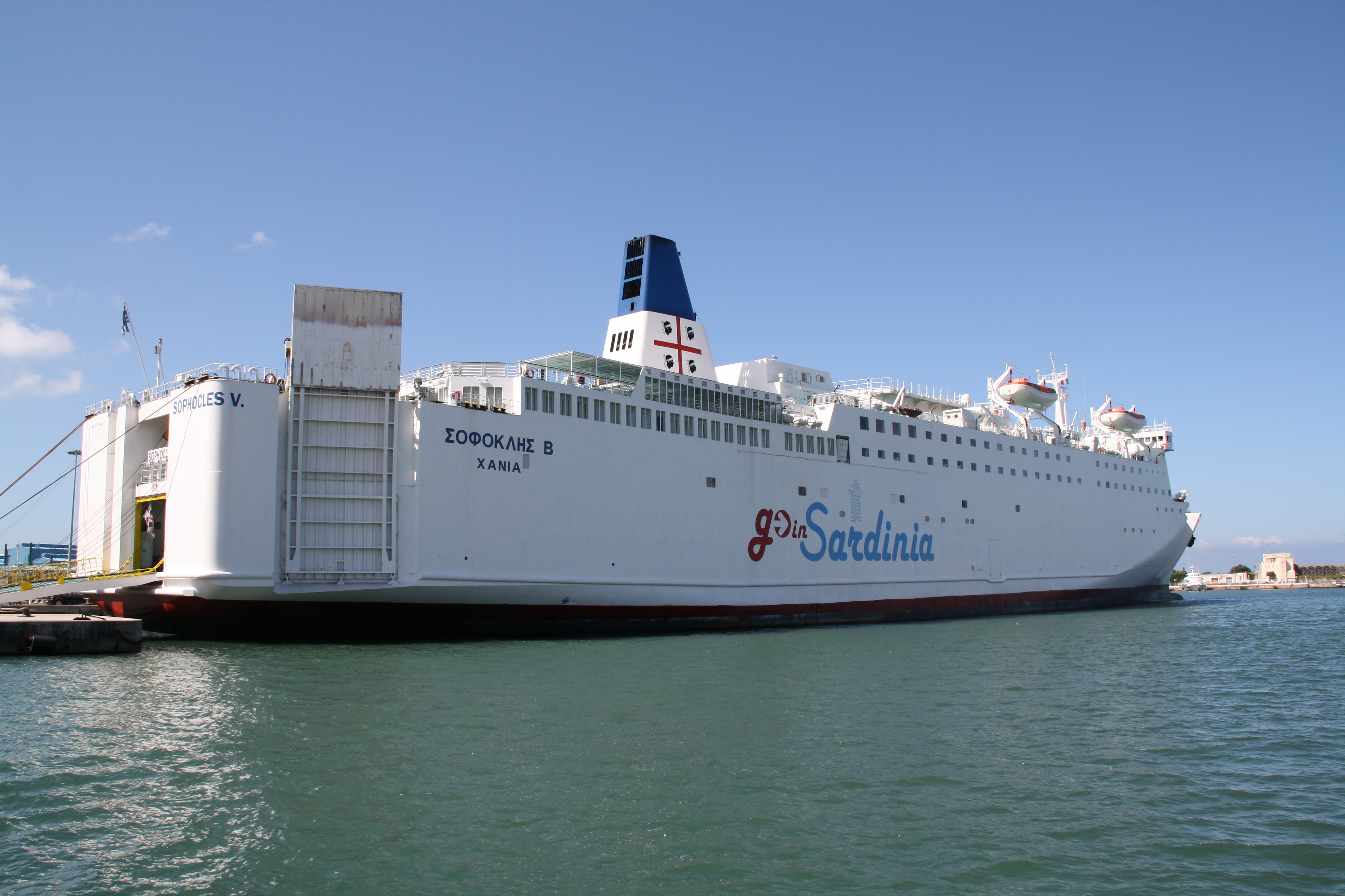 Greece Shipowner: ANEK Lines on charter to GoinSardinia IMO: 8916607 MMSI: 239593000 Call sign: SWBZ Type: Ro-ro passenger ship Year of construction: 1991 Shipyard: Mitsubishi Heavy Industries Shimonoseki Shipyard, Japan Yard number: n.a. Port of registry: Chania Former name: Jeju Deadweight tonnage: t 6285 Gross tonnage: t 29358 Net tonnage: t Length overall: m 192 Breadth: m 29 Draught: m 6.7 Speed: knots 25